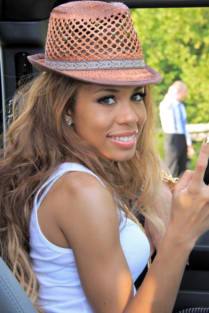 Photo of the backstage of "Test Drive", music video of singer Keshia Chanté.